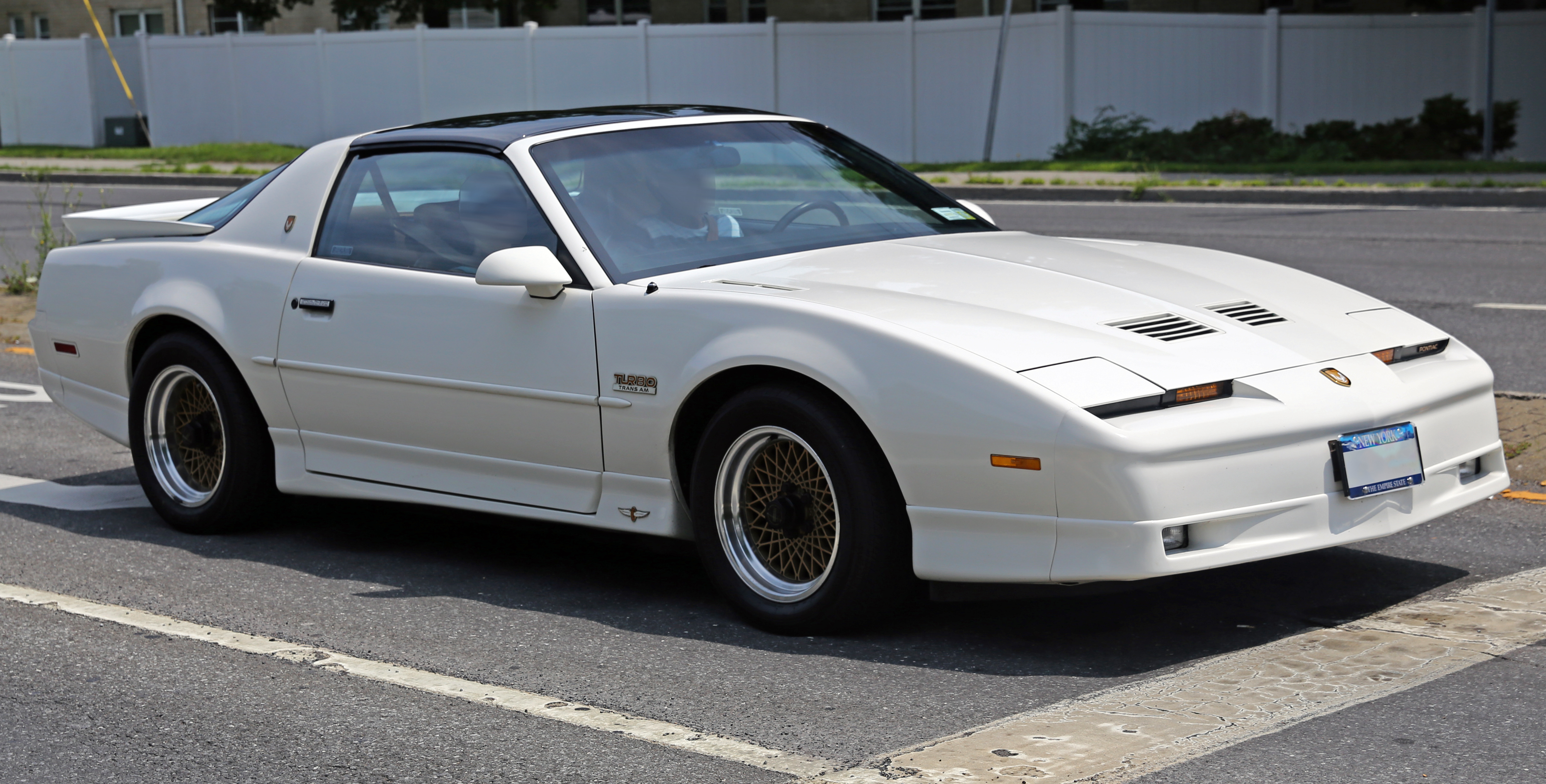 1989 Pontiac Firebird Trans Am Turbo GTA 20th Anniversary Edition T-top. With Buick's 3.8-liter turbocharged V6 it had over 300hp, although only 250 were claimed so as not to embarrass the Corvette boys. 1552 were built.